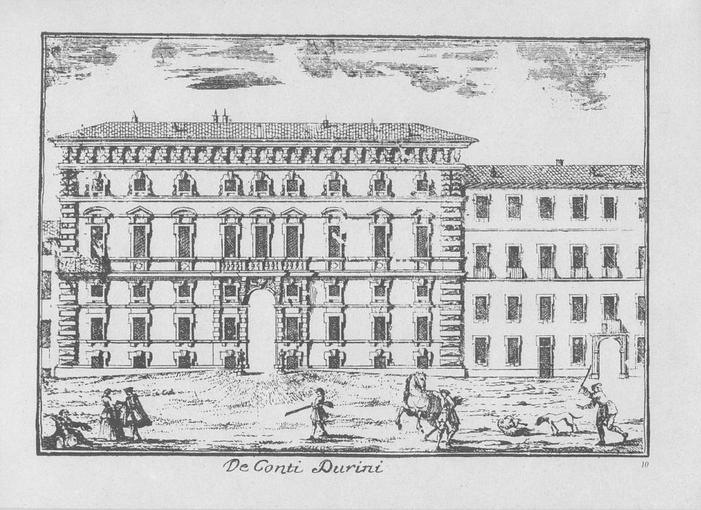 Marc'Antonio Dal Re (1697-1766), owned by counts Durini in Milan. This engraving is # 10 from a set of 88 Vedute di Milano ("Views of Milan") published by Del Re around 1745.